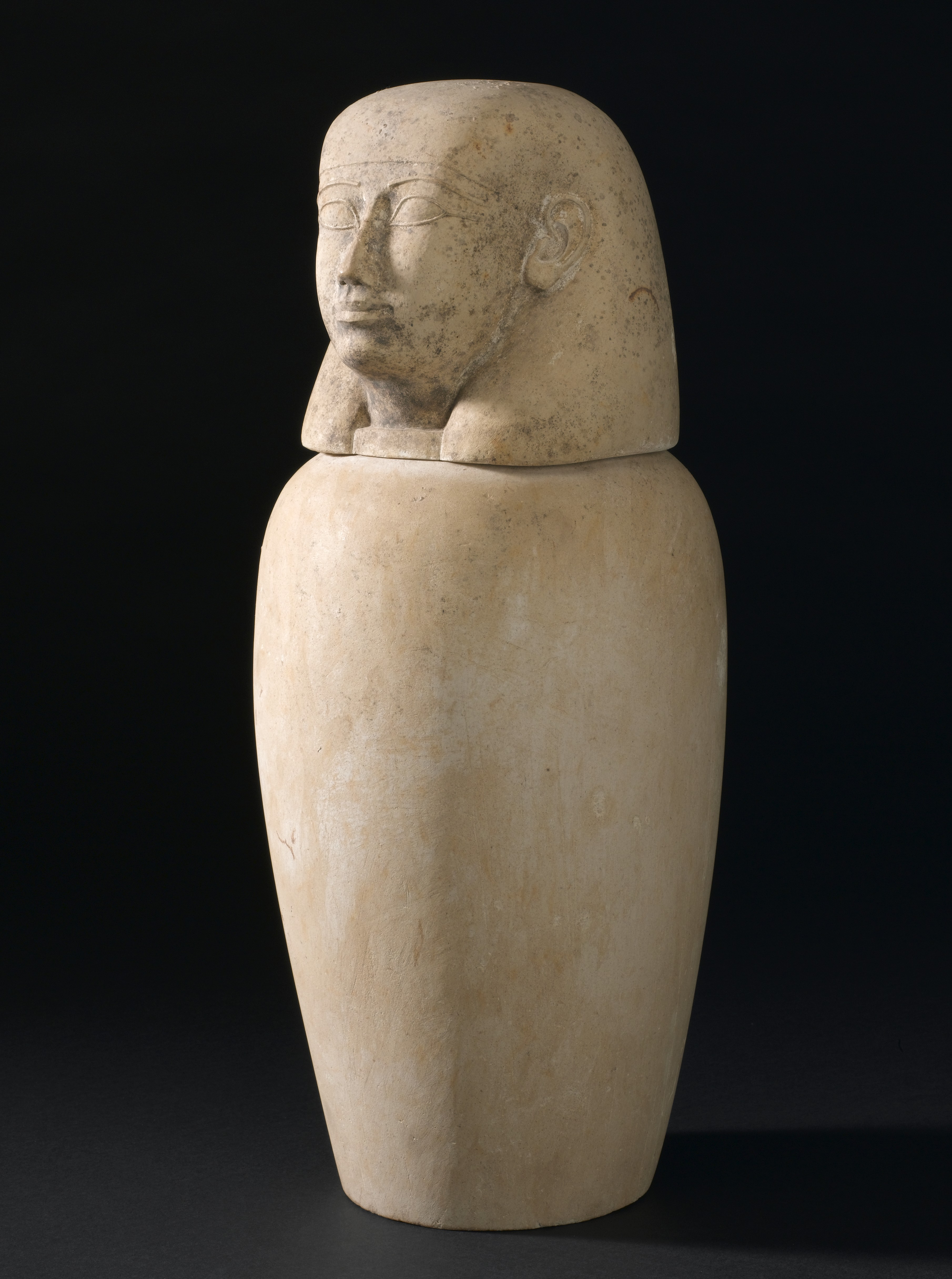 Canopic jar, Egypt, 2000 BCE-100 CE The intestines, stomach, lungs and liver were removed from the body as part of ancient Egyptian mummification. The organs were placed in individual carved limestone canopic jars, each with a different shaped head representing four corresponding Egyptian gods – the Sons of Horus. Each ‘Son’ looked after a different body part. Human-headed lids, such as this one, represent Imsety (Mestha), guardian of the liver. The jackal-headed Duamutef was the guardian of the stomach. The falcon-headed Qebhsnuf looked after the intestines; the baboon-headed Hapi looked after the lungs. Medical Photographic Library